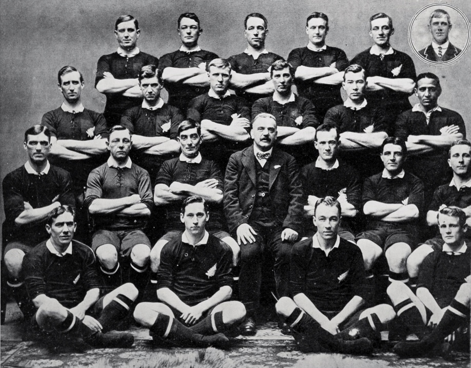 The New Zealand All Blacks rugby union team that toured Australia in 1914. From the source: "Showing a group portrait of the All Blacks rugby team which left Wellington for Sydney, 3 July 1914: (back row) Irvine, Lynch, Downing, Graham, Barrett, Cain (insert); (second back row) Lindsay, Fisher, Murray, McNeese, Bruce, Ranji Wilson;(seated) Weston, Taylor, R Roberts, R M Isaacs, J Ryan, Francis, O'Brien; (front) Black, Loveridge, McKenzie, E Roberts"